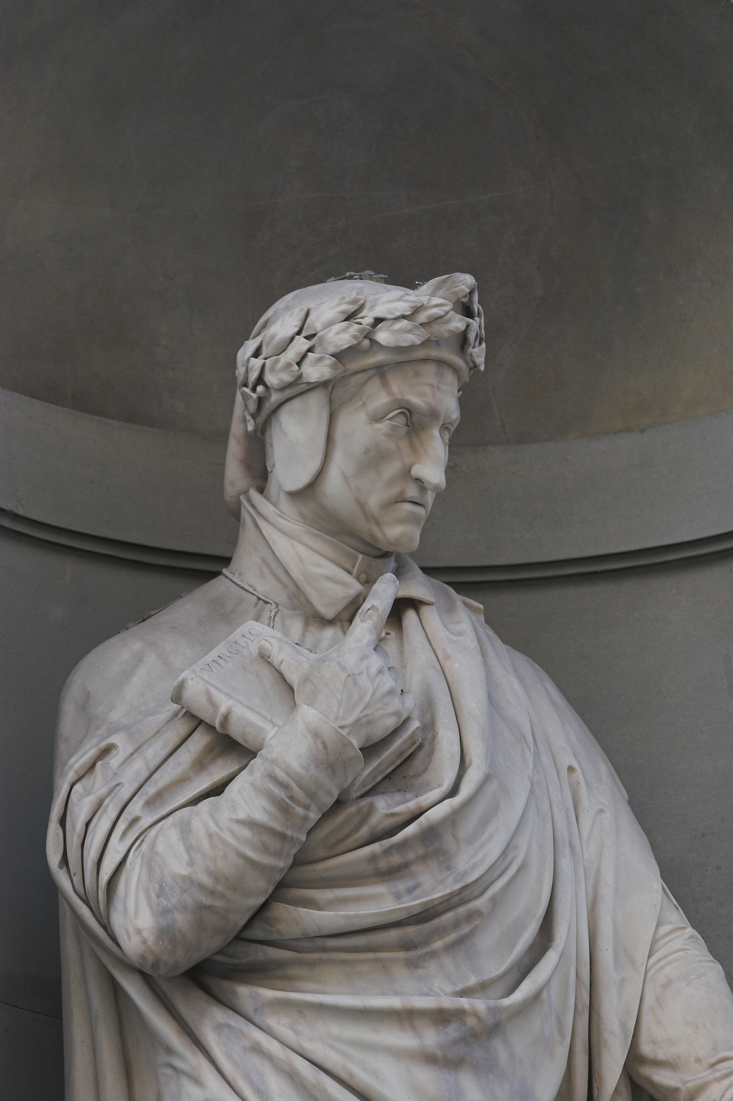 Statue of Dante in front of Galleria Uffizi